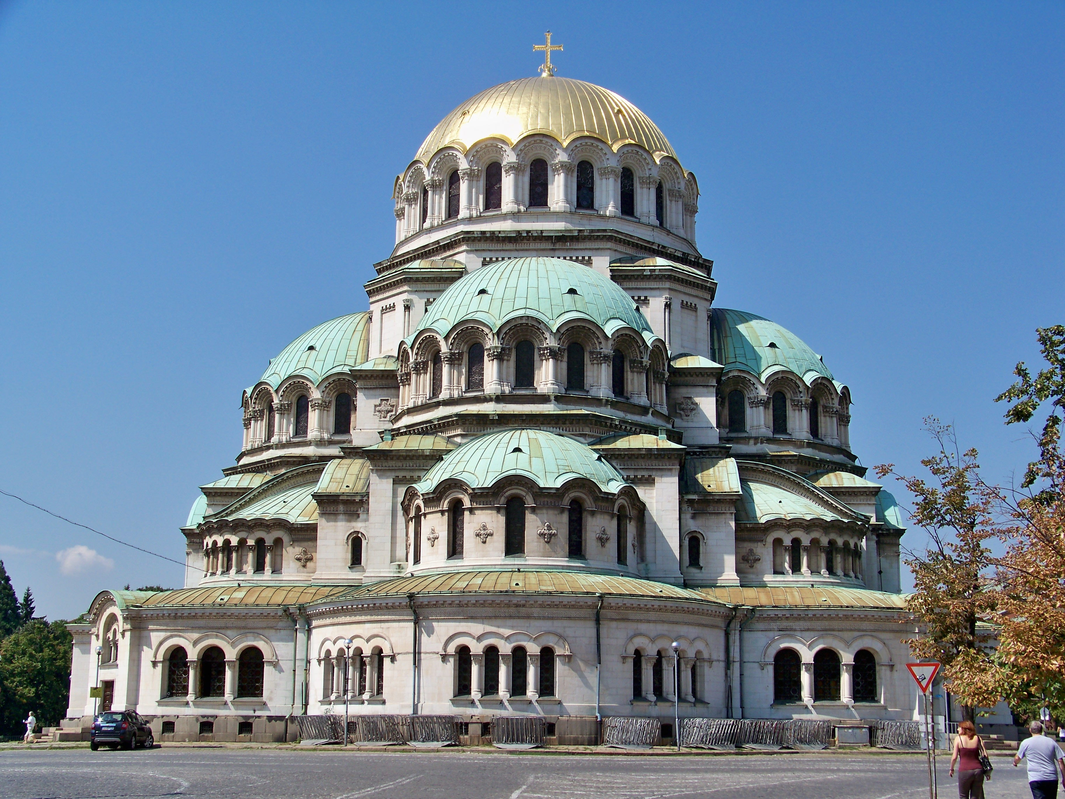 The St. Alexander Nevsky Cathedral is a Bulgarian Orthodox cathedral in Sofia, the capital of Bulgaria.